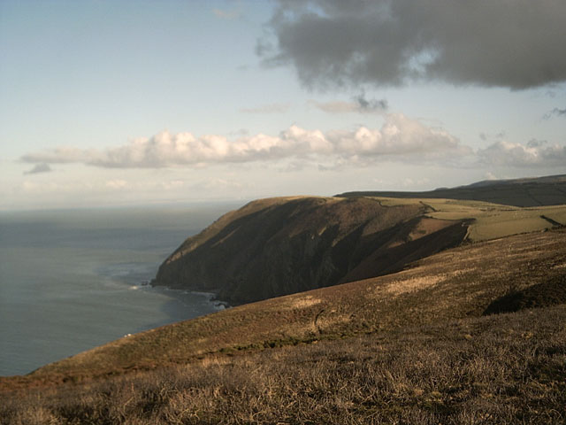 View of Highveer Point from Holdstone Down. Taken on the South West Coastpath